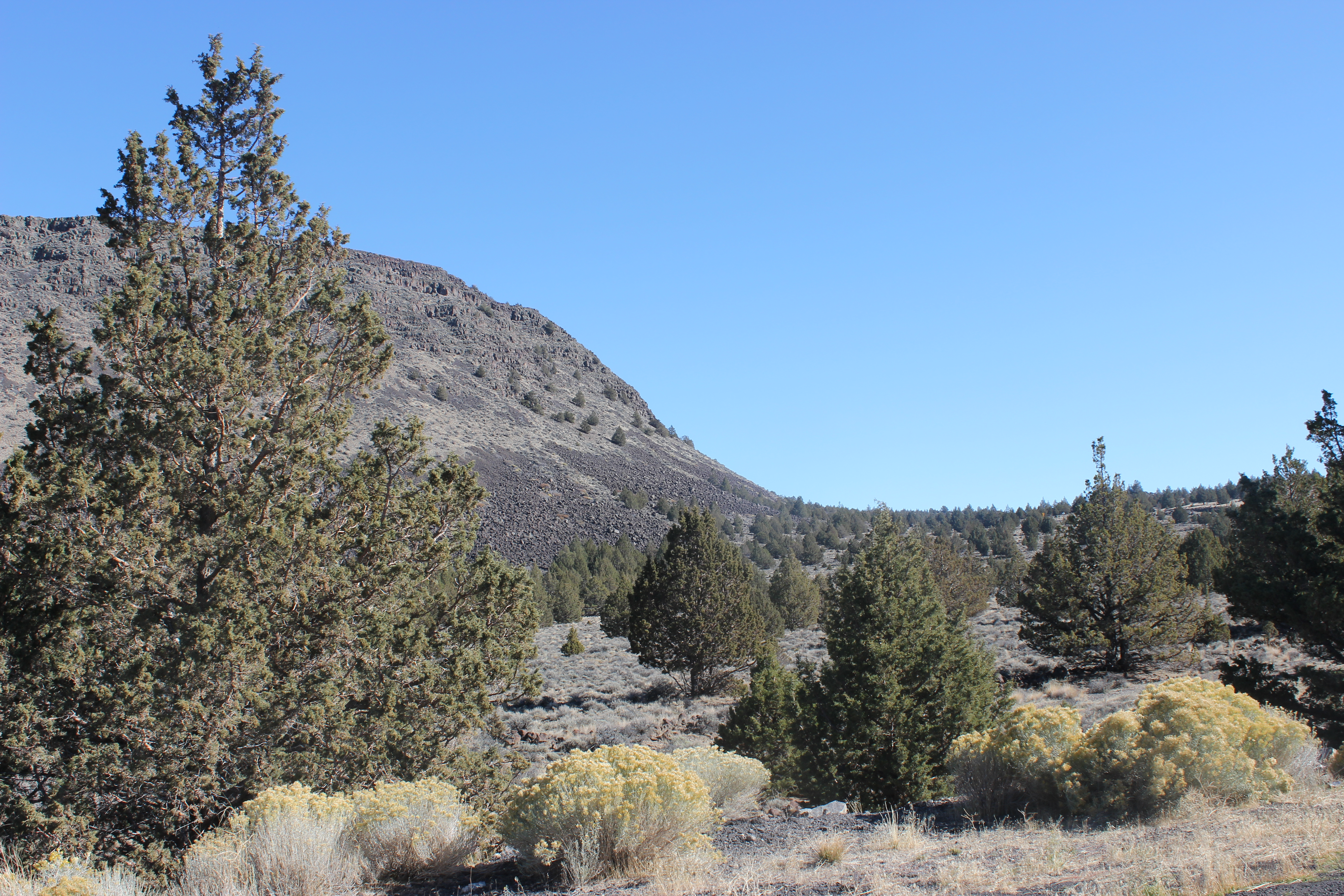 Picture Rock Pass between Silver Lake and Summer Lake in Lake County in south central Oregon